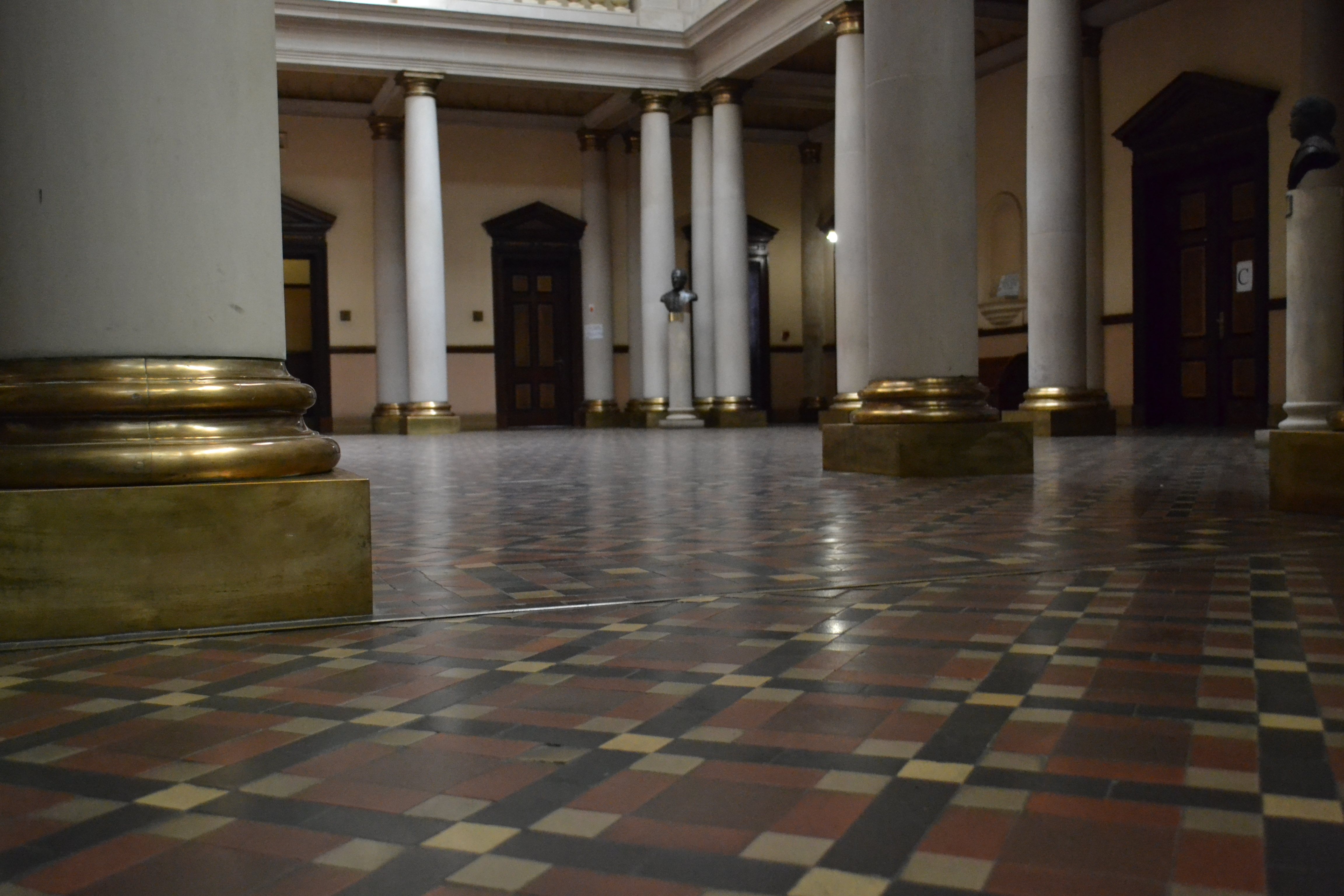 Palace of Justice (S Wierda) 1902 Church Square Pretoria This media shows a South African Protected Site with SAHRA file reference 9/2/258/0013 .